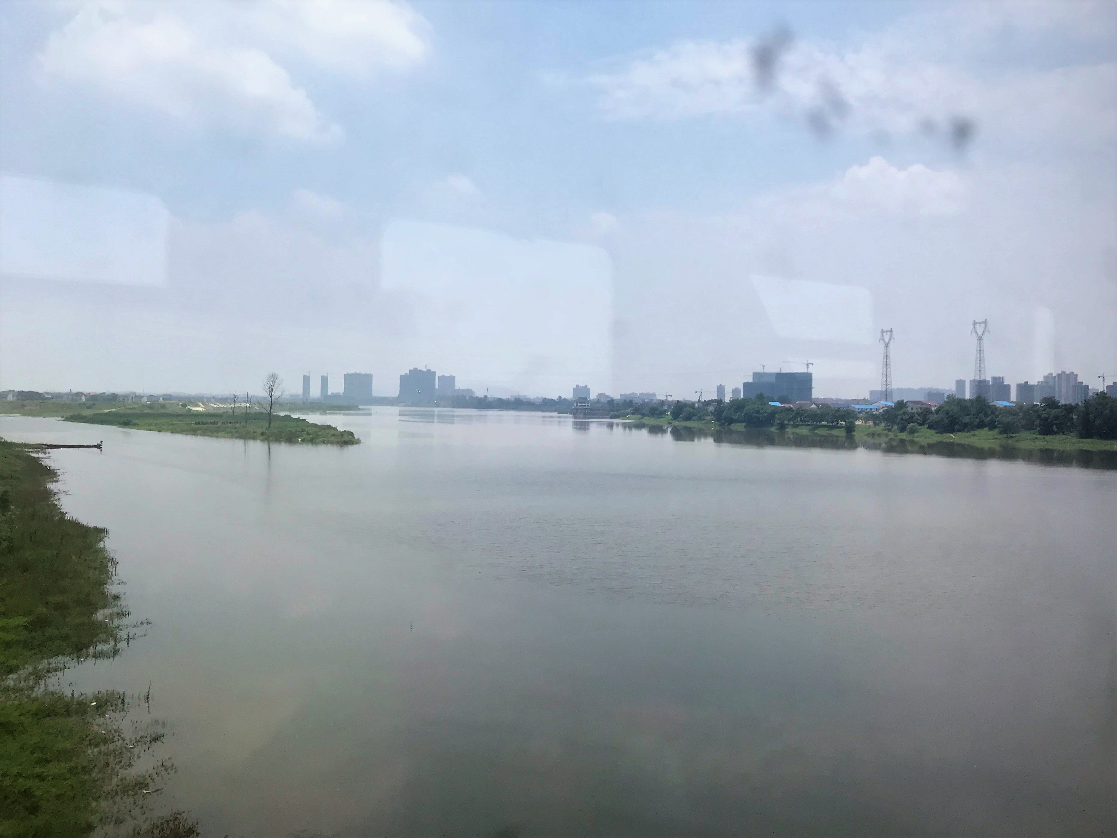 201906 Miluo River in Miluo City